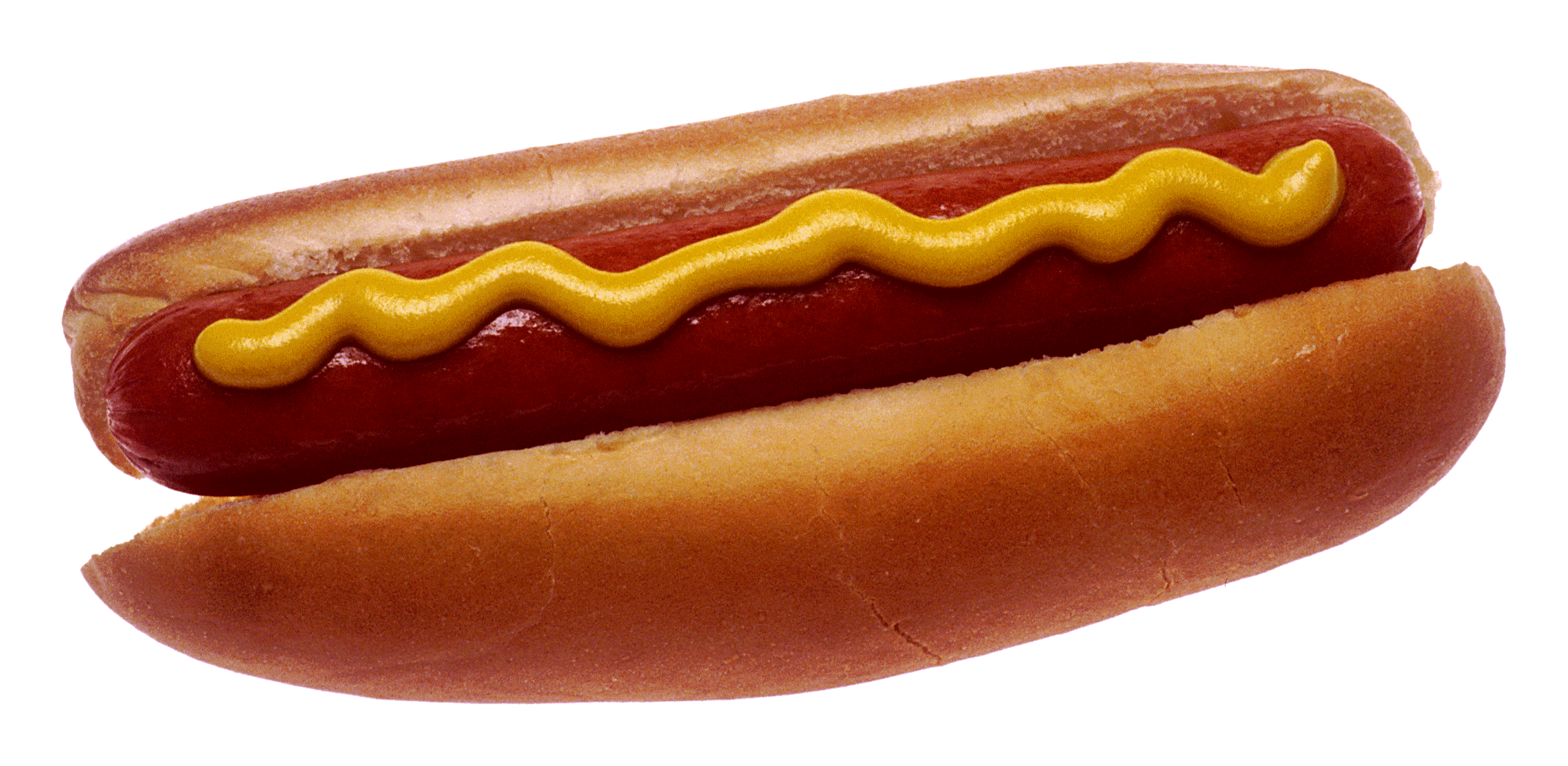 Derivative of File:NCI Visuals Food Hot Dog.jpg (PD) on a transparent background, cropped, .png: a cooked hot dog with mustard garnish